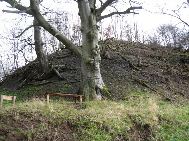 Cornhill Castle Mound From the south bank of the River Tweed Other picture and castle history